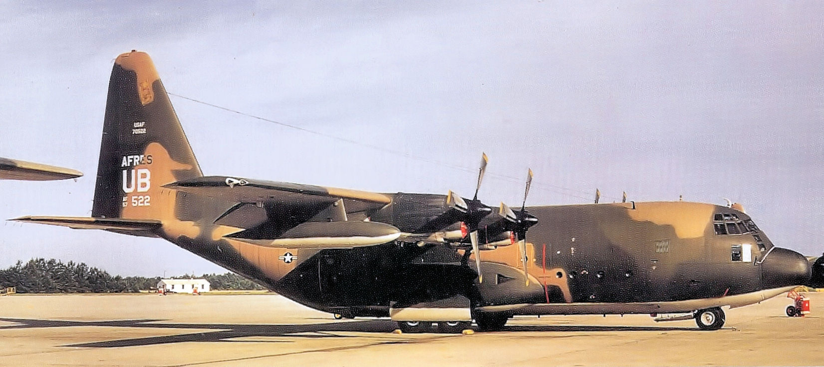 304th Tactical Airlift Squadron - Lockheed C-130A-55-LM Hercules 57-0522 Richards-Gebaur Air Force Base, Missouri, 1974. Aircraft was later scrapped at Wright-Patterson AFB, Ohio about 1979